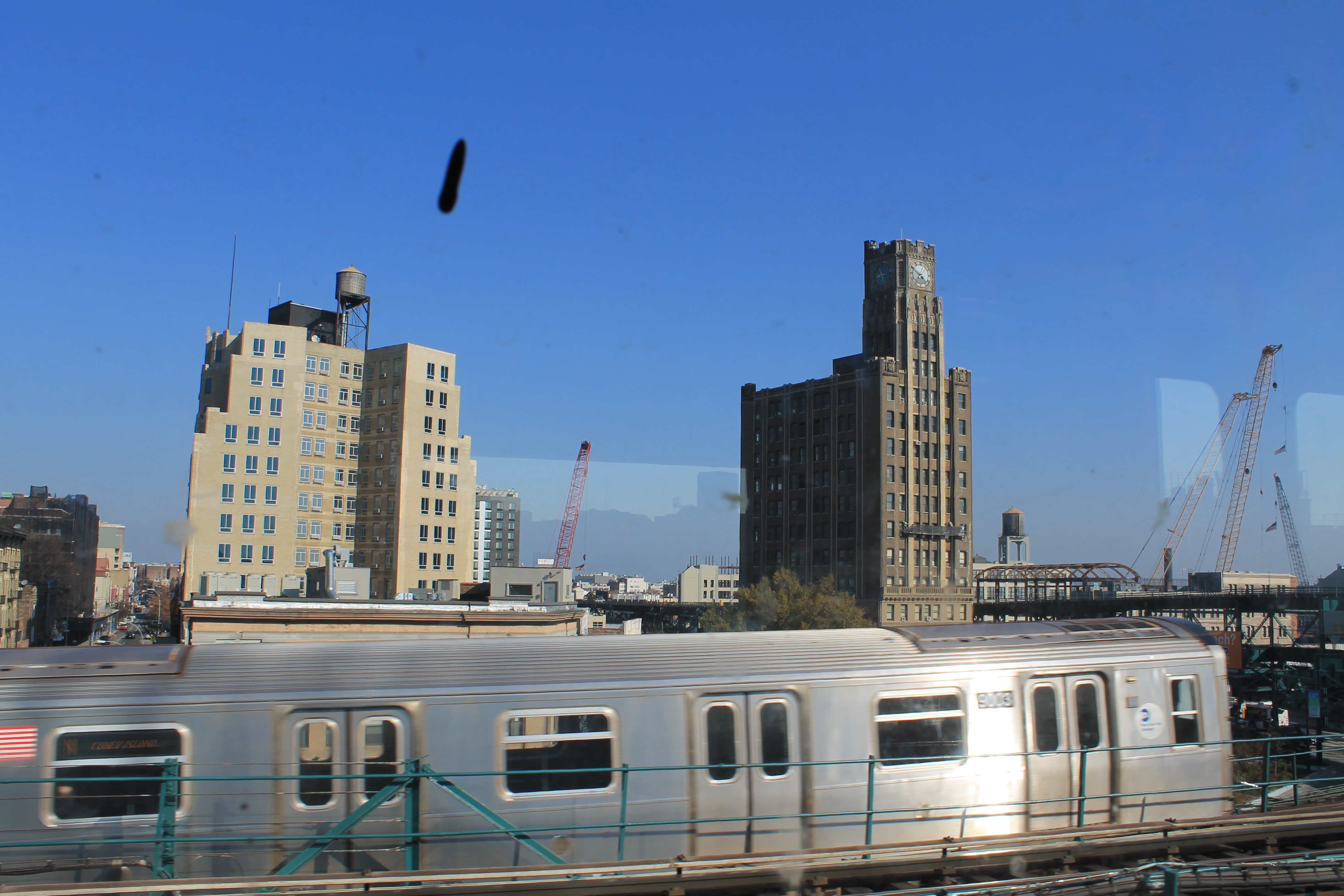 Queens, NY , view from the Subway